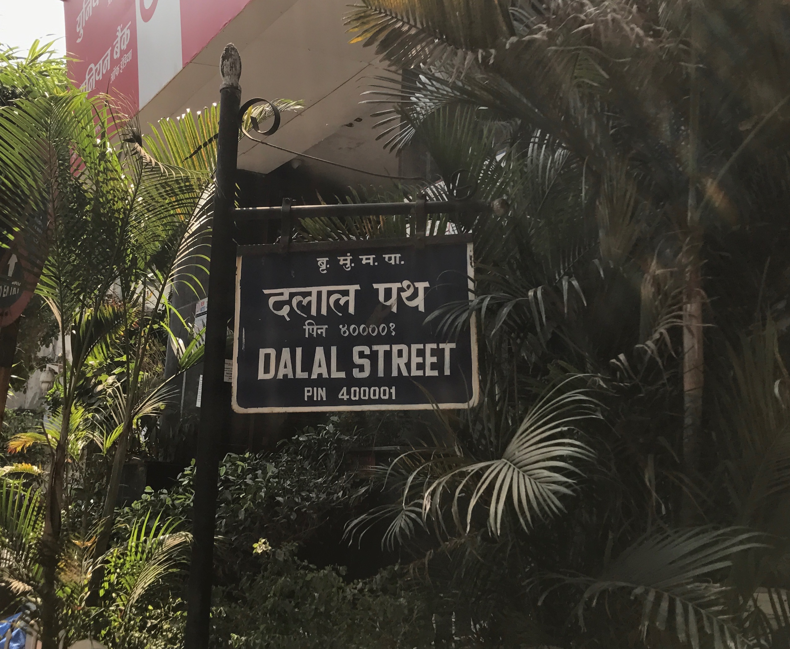 Dalal Street Signage